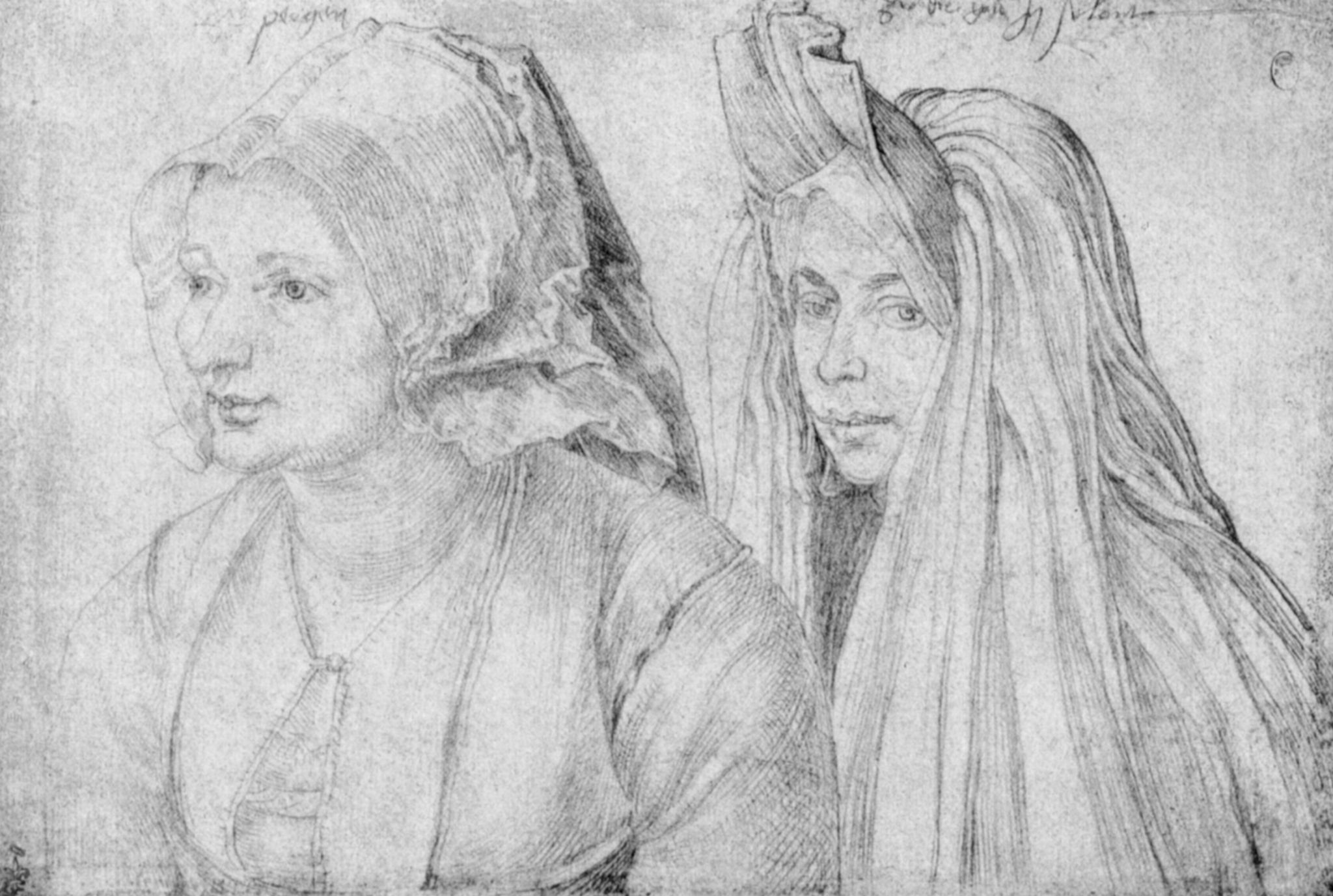 Drawing by Albrecht Dürer, from the Album he made during his travels in the Netherlands in 1520-1521: portrait of a young woman from Goes and one from Bergen (Zeeland, NL). The woman from Goes (right) wears a hoyck (or huik - there are many spellings), the typical garment of the Dutch housewife.